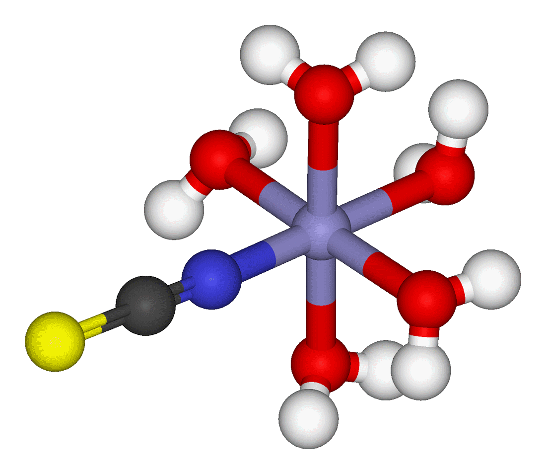 Pentaaquathiocyanatoiron (II) 3D balls